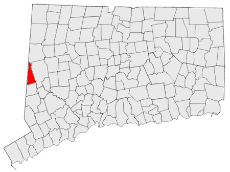 Location map of Sherman, Connecticut.